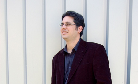 Daniel Mestre Conductor